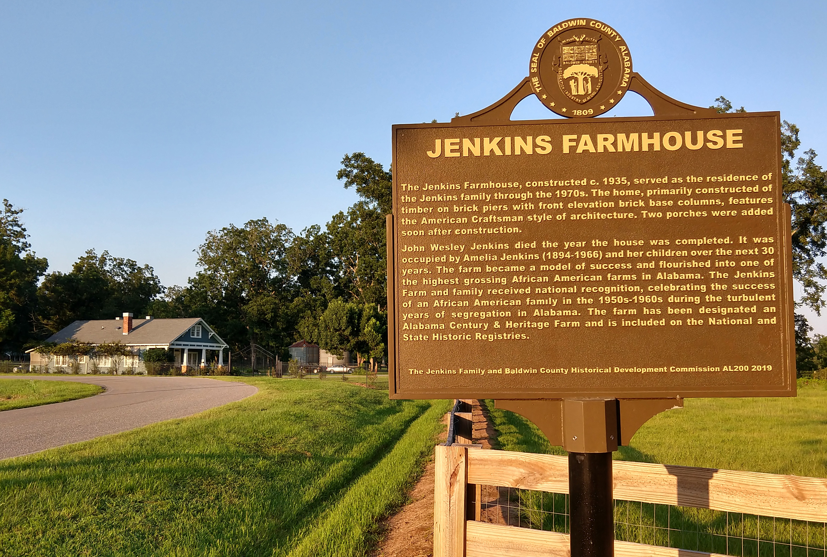 The Jenkins Farmhouse in Loxley, Alabama. The historical marker text reads as follows: The Jenkins Farmhouse, constructed c. 1935, served as the residence of the Jenkins family through the 1970s. The home, primarily constructed of timber on brick piers with front elevation brick base columns, features the American Craftsman style of architecture. Two porches were added soon after construction. John Wesley Jenkins died the year the house was completed. It was occupied by Amelia Jenkins (1894-1966) and her children over the next 30 years. The farm became a model of success and flourished into one of the highest grossing African American farms in Alabama. The Jenkins Farm and family received national recognition, celebrating the success of an African American family in the 1950s-1960s during the turbulent years of segregation in Alabama. The farm has been designated an Alabama Century & Heritage Farm and is included on the National and State Historic Registries.